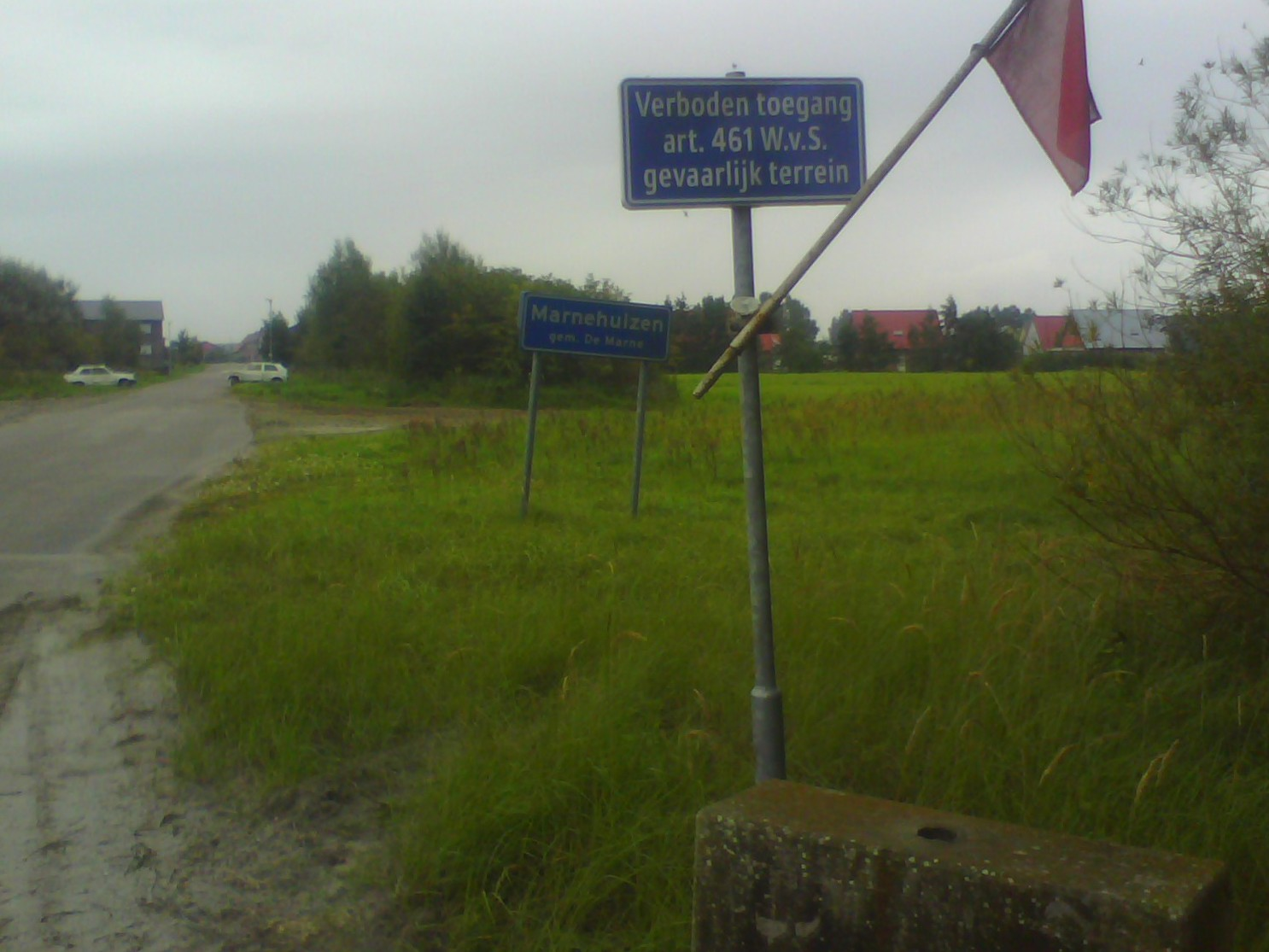 One of the entrances to Marnehuizen, military mock up village in Marnewaard, Groningen, Netherlands. The sign reads: "Entrance forbidden art. 461 Criminal Law. Dangerous terrain.".